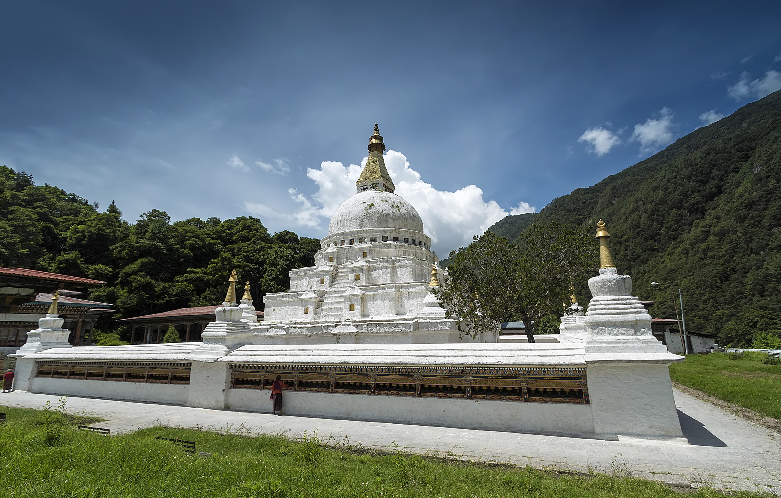 Chorten Kora is an important stupa next to the Kulong Chu River in Trashiyangtse, in East Bhutan. Nearby is a town of the same name. The stupa was built in the 18th century by Lama Ngawang Lodrö, the nephew of Shabdrung Ngawang Namgyal in order to subdue a harmful demon believed to have been living at the site where the chorten is now located. The stupa is modeled after the famous Boudhanath stupa in Nepal popularly known as Jarung Khashor.